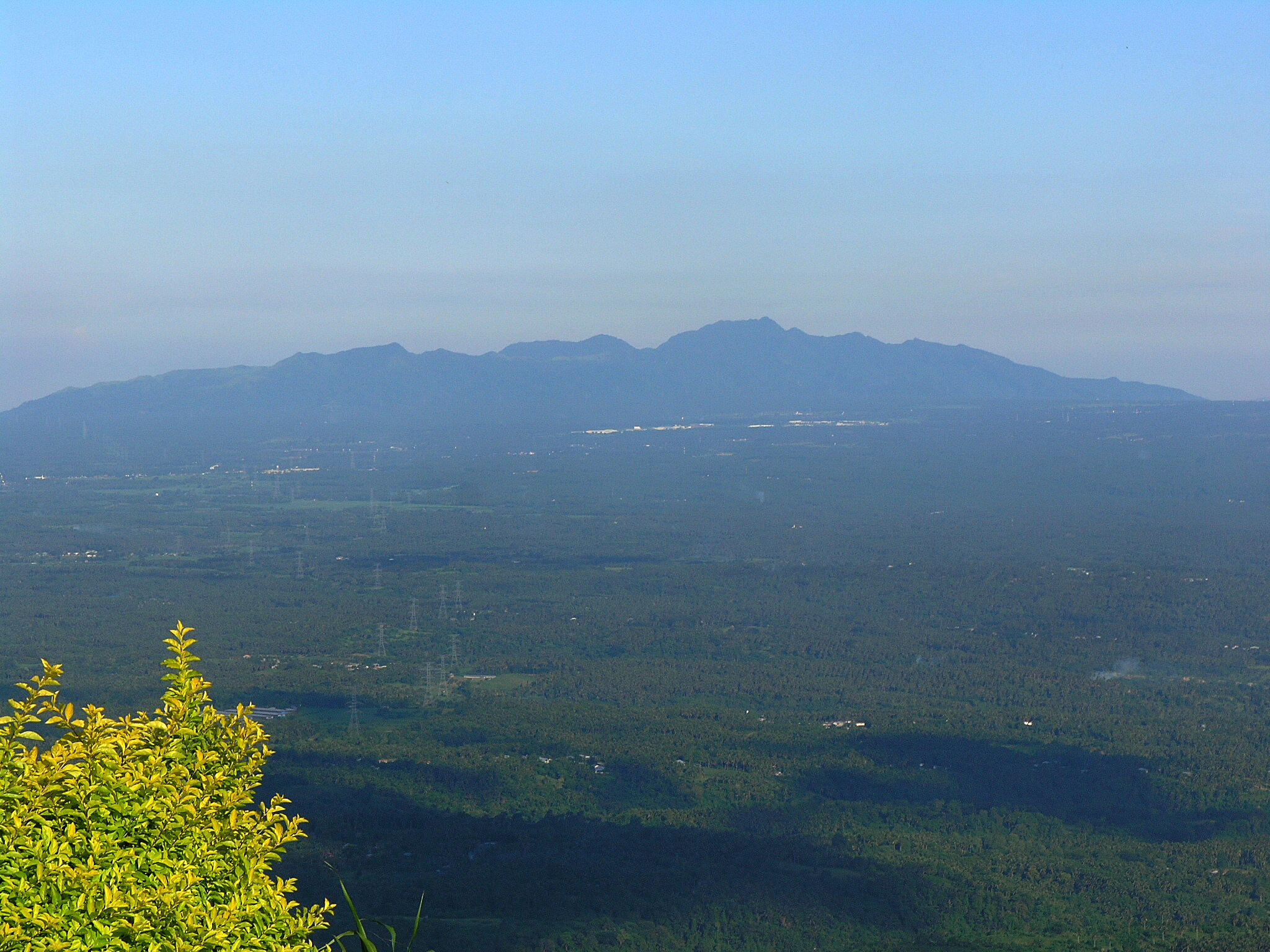 Mount Malepunyo as seen from Tagaytay Highlands in the Philippines.